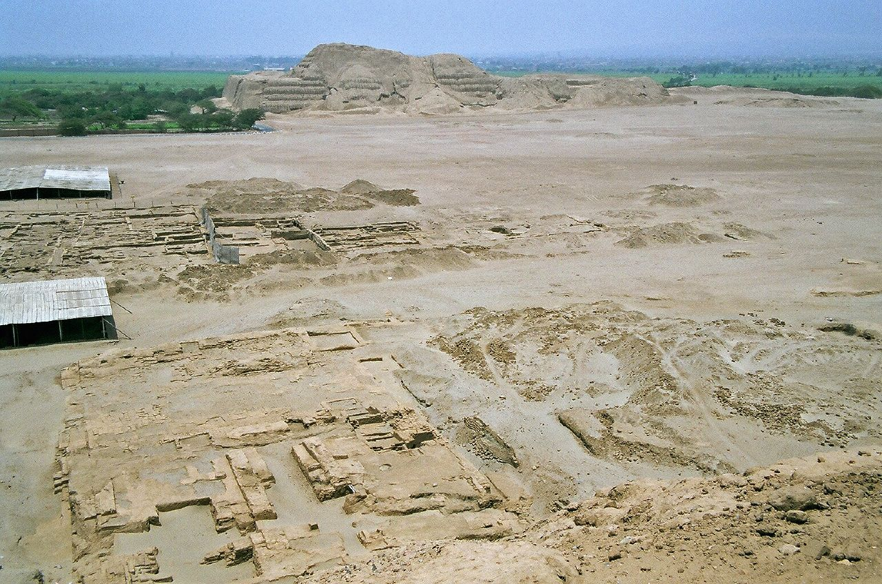 Huaca del Sol, main center of the Moche civilisation. Foreground: Ruins of city and Huaca de la Luna, another religious center. Background: Moche river delta and Trujillo city.